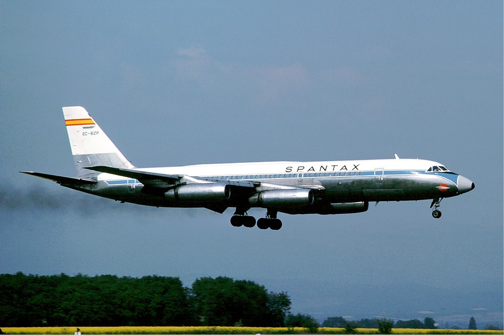 Spantax Convair CV-990 (EC-BZP) at Basle